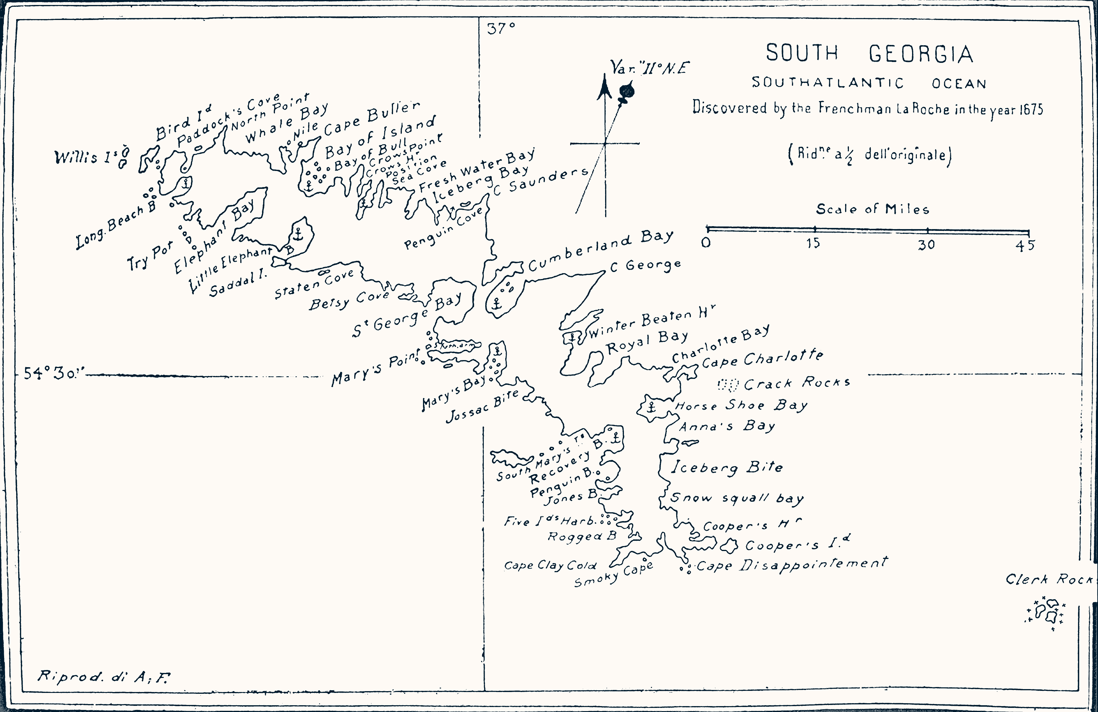 Capt. Isaac Pendleton, South Georgia; Southatlantic Ocean: Discovered by the Frenchman La Roche in the year 1675, 1802, reproduced by A. Faustini, Rome, 1906